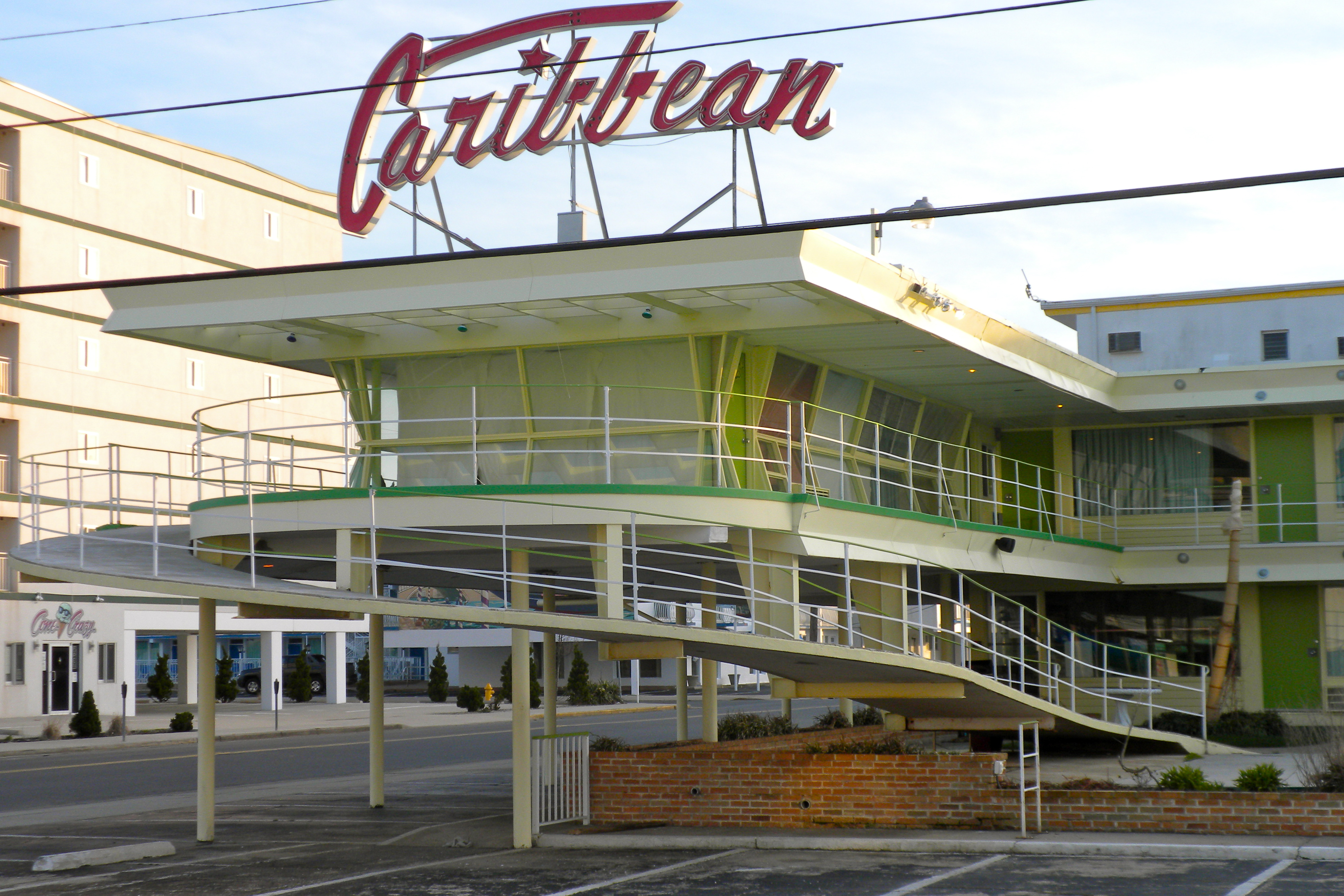 Caribbean Motel on NRHP since August 24, 2005. At 5600 Ocean Ave. in Wildwood Crest (south of Wildwood), New Jersey in Cape May County. Built 1958 in a distinctive modern (Las Vegas? Jetsons?) style, aka Googie style, or locally "Doo-Wop". See also "Chateau Bleu" for another example of this style nearby.